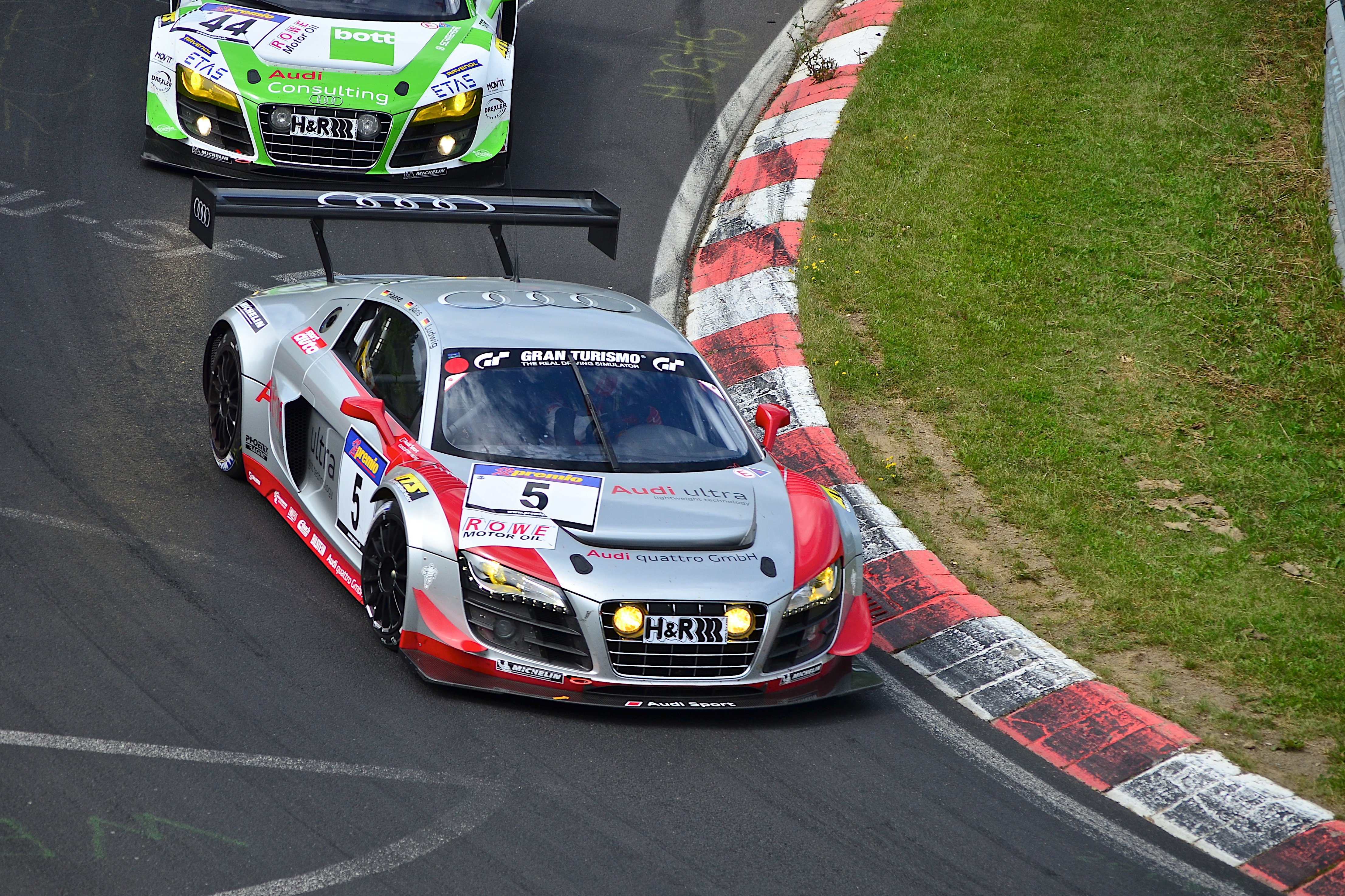 Photo taken during the "6h ADAC Ruhr-Pokal-Rennen" on the Nürburgring Nordschleife